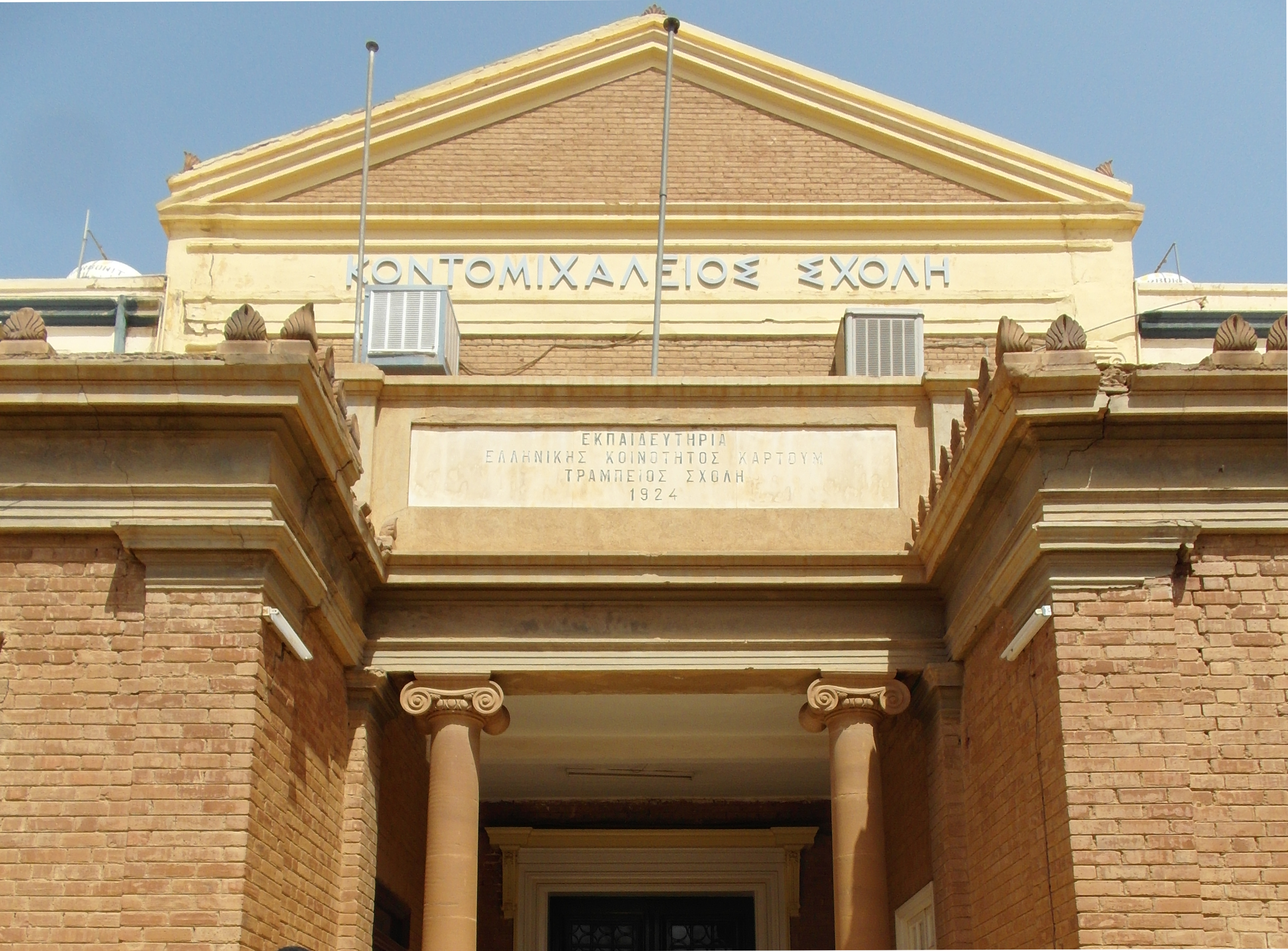 The school building of the Hellenic Community in Khartoum, Sudan, named after its founding benefactor Gerasimos Contomichalos.